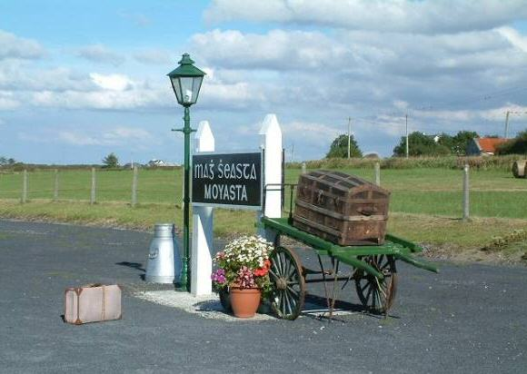 Moyasta Junction. The restored station at Moyasta Junction - where the old West Clare Railway split into a line going to Kilkee and another going west to Kilrush. Well worth a visit especially for a rendering of "Are you right there Michael? Are you right?" by the one and only Joe Taylor...